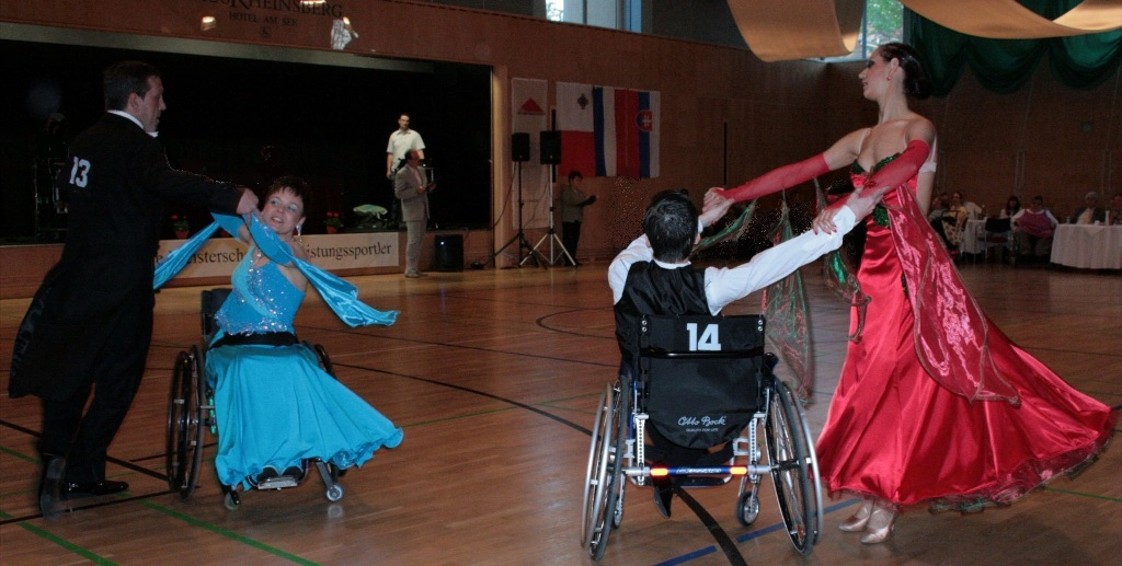 Wheelchair Dancesport: International German Championship 2012, Rheinsberg, Germany